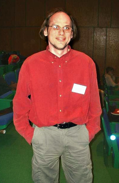 I took the picture at Sidneyfest 2005 and declare it public domain. Thanks, Lubos Motl.